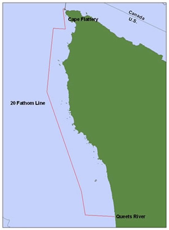 A diagram showing the 20-fathom coastal range for the catching of rockfish in Washington state.